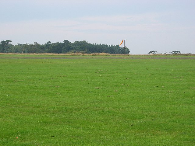 Kirknewton Airfield. Not disused as the OS would have us believe. Used by a gliding club, and the army, judging by the helicopter training going on today. A wartime airfield, converted by housing developers.